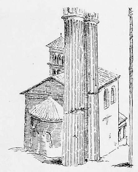 Marten Heemskerk drawing 1536 of cardinal deaconry of Sts. Sergius and Bacchus in the Roman Forum Lanciani Ruins and excavations of ancient Rome: a companion book for students and travelers. (1897)